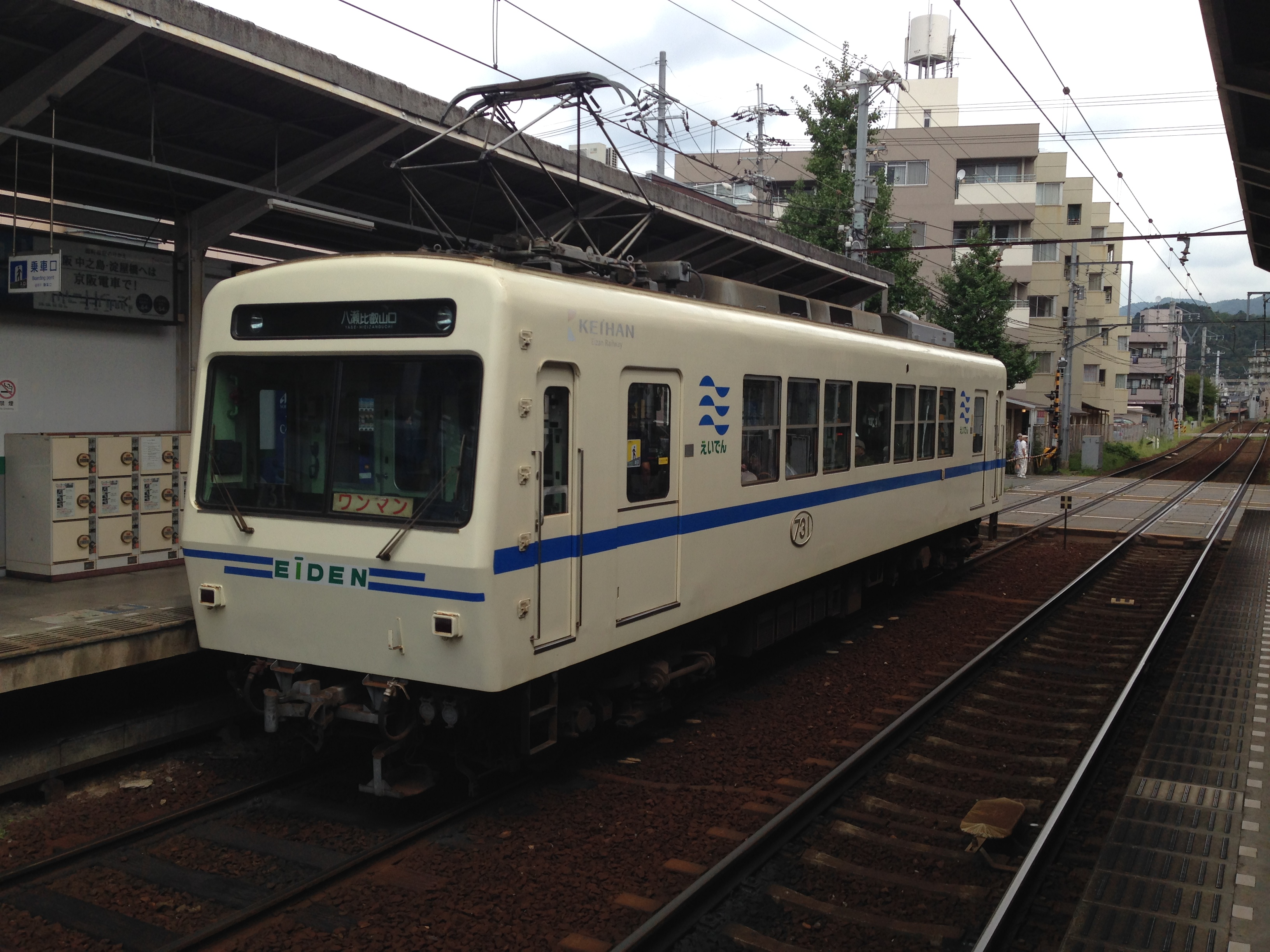 Eizan Railway Deo 731 at Shugakuin Station